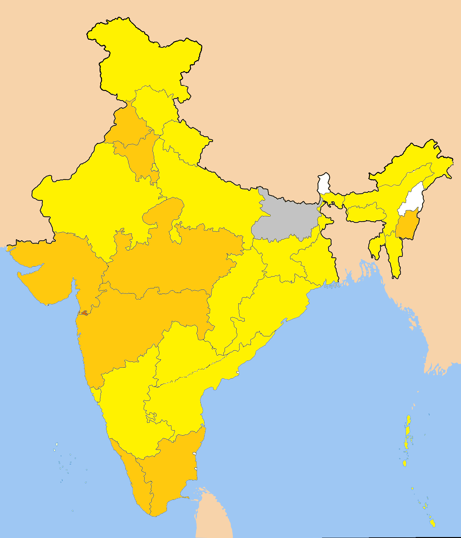 Won ten or more gold medals. Won one to nine gold medals. Did not won gold medal but won at least one silver medal. Did not won gold or silver medal but won at least one bronze medal. Did not won any medal.